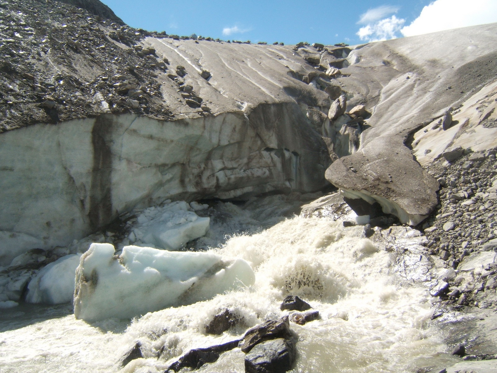 Mouth of the glacier Schlatenkees (near Innergschlöß and Alte Prager Hütte), AustriaYou can see the whole glacier and the shooting position of this photo here